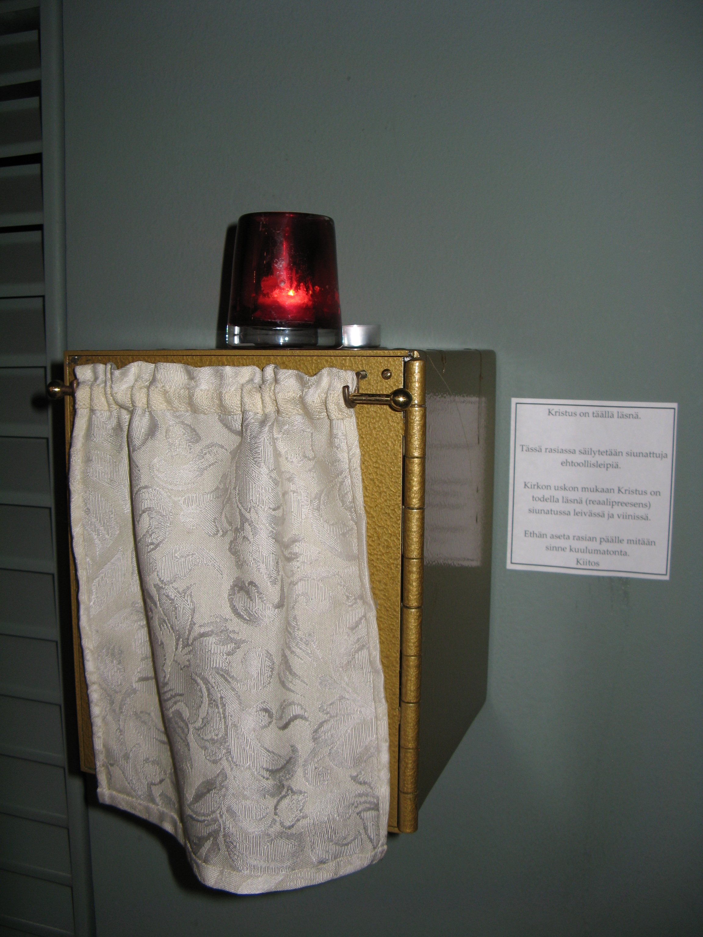 A note about the real presence in Mikael Agricola Church, Helsinki. Original caption: "Christ is present here. This box is used for storing blessed sacrificial breads. According to the belief of the Church, Christ is really present (Real presence) in the blessed bread and in wine. Please do not put anything on the box that does not belong there. Thank you." — Text of the note (translation)